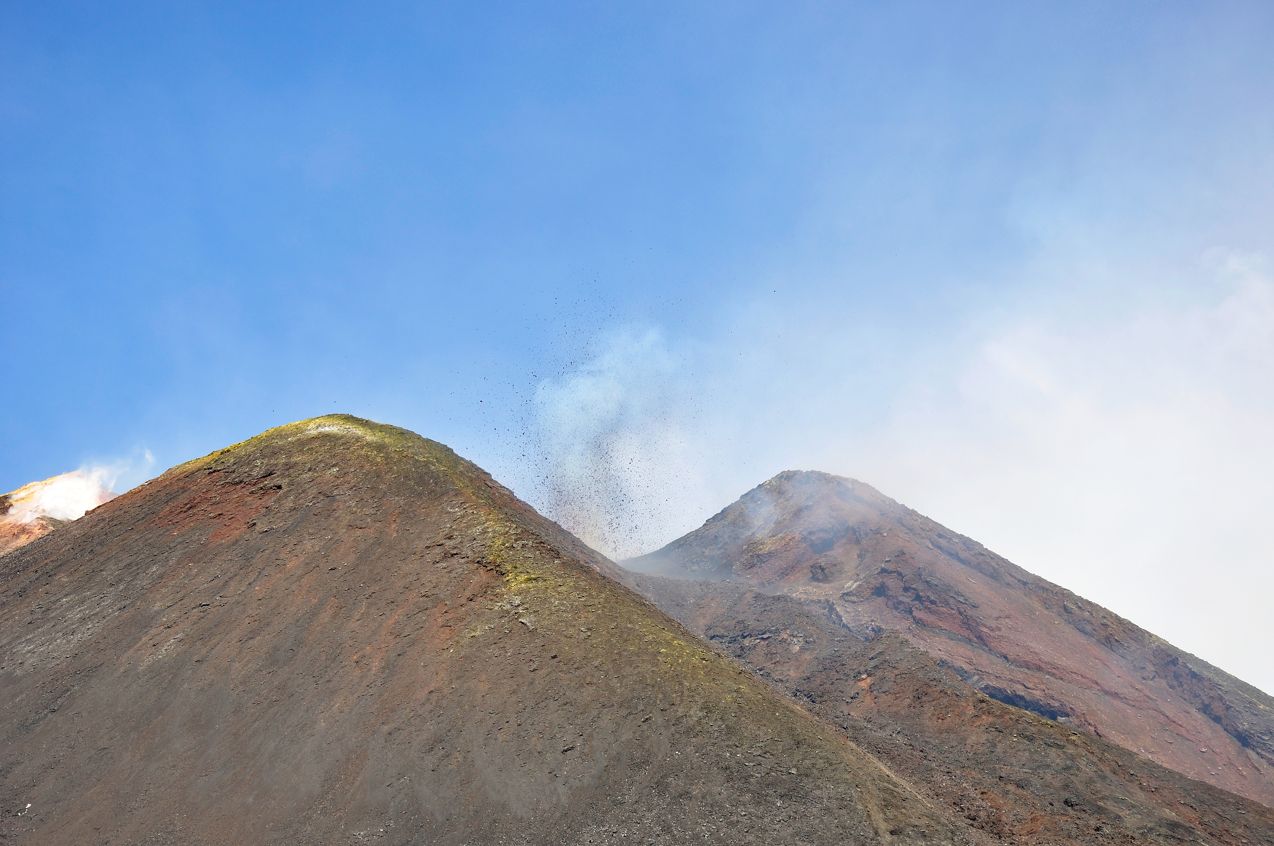 Weak strombolian eruption of the Etna on April 12, 2012.